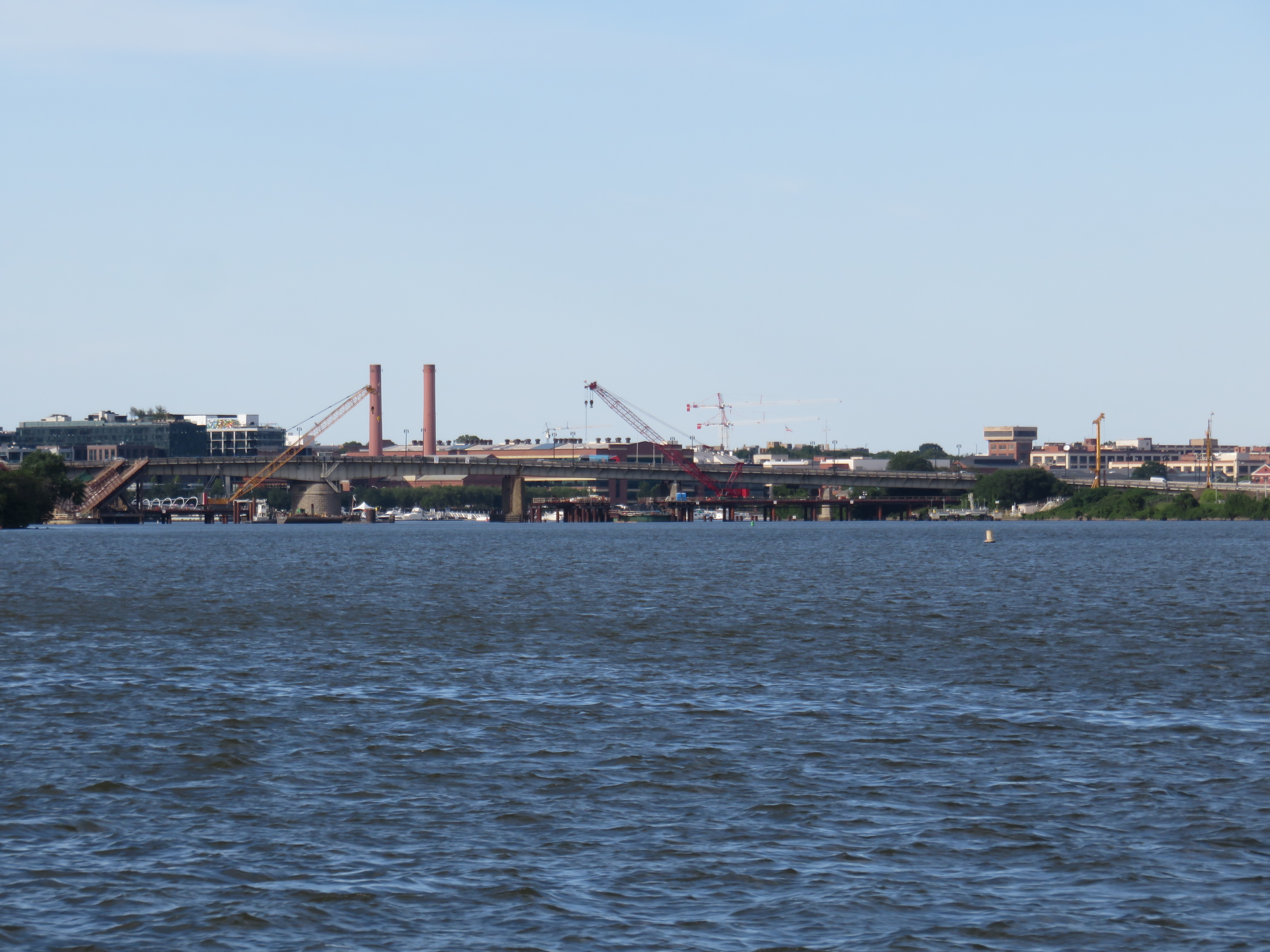 Frederick Douglass Memorial Bridge viewed from the Potomac water taxi in 2019, showing construction on the new bridge